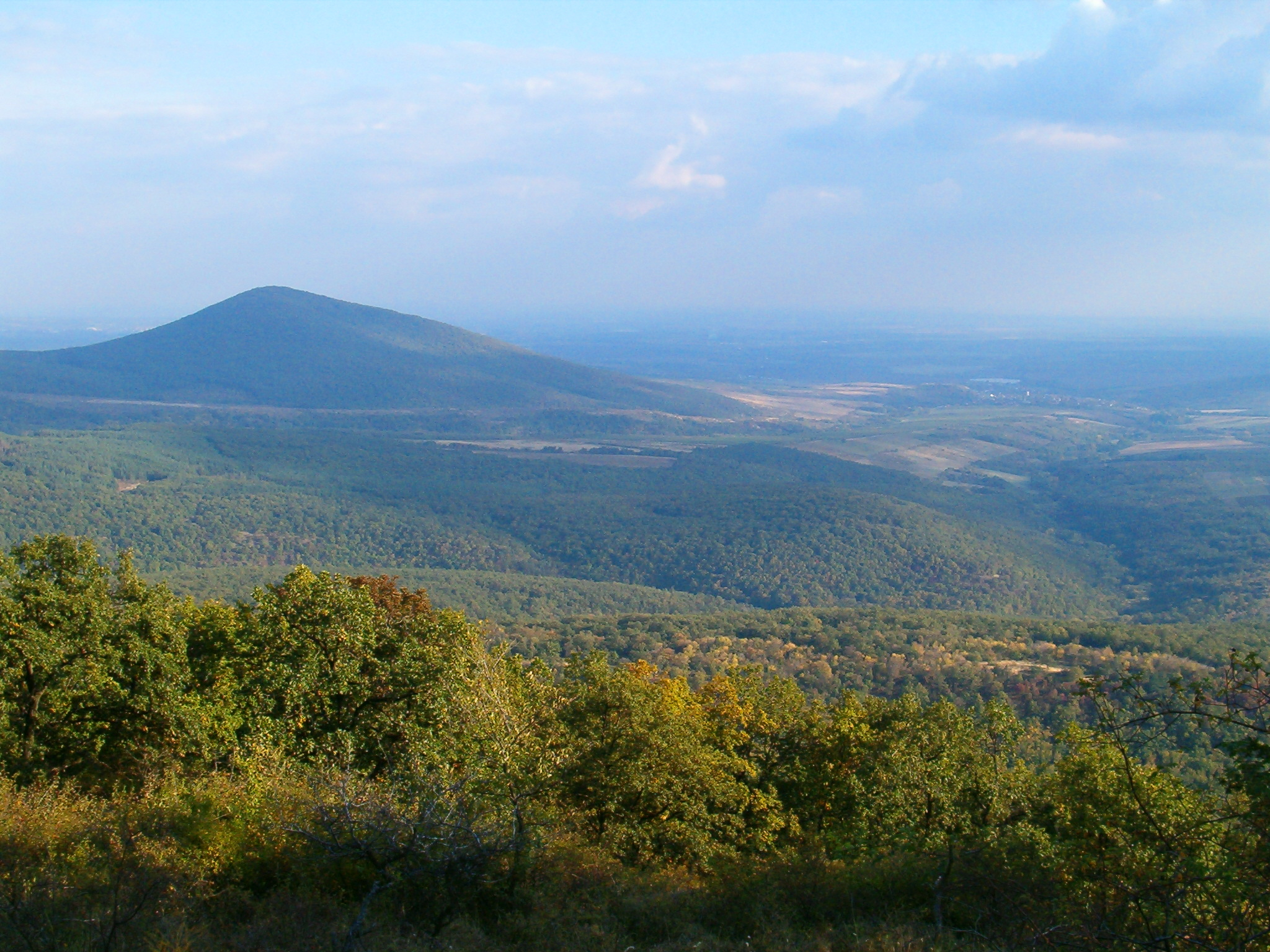 Mt. Havas (599 m) in the Mátra Mts. (Hungary)